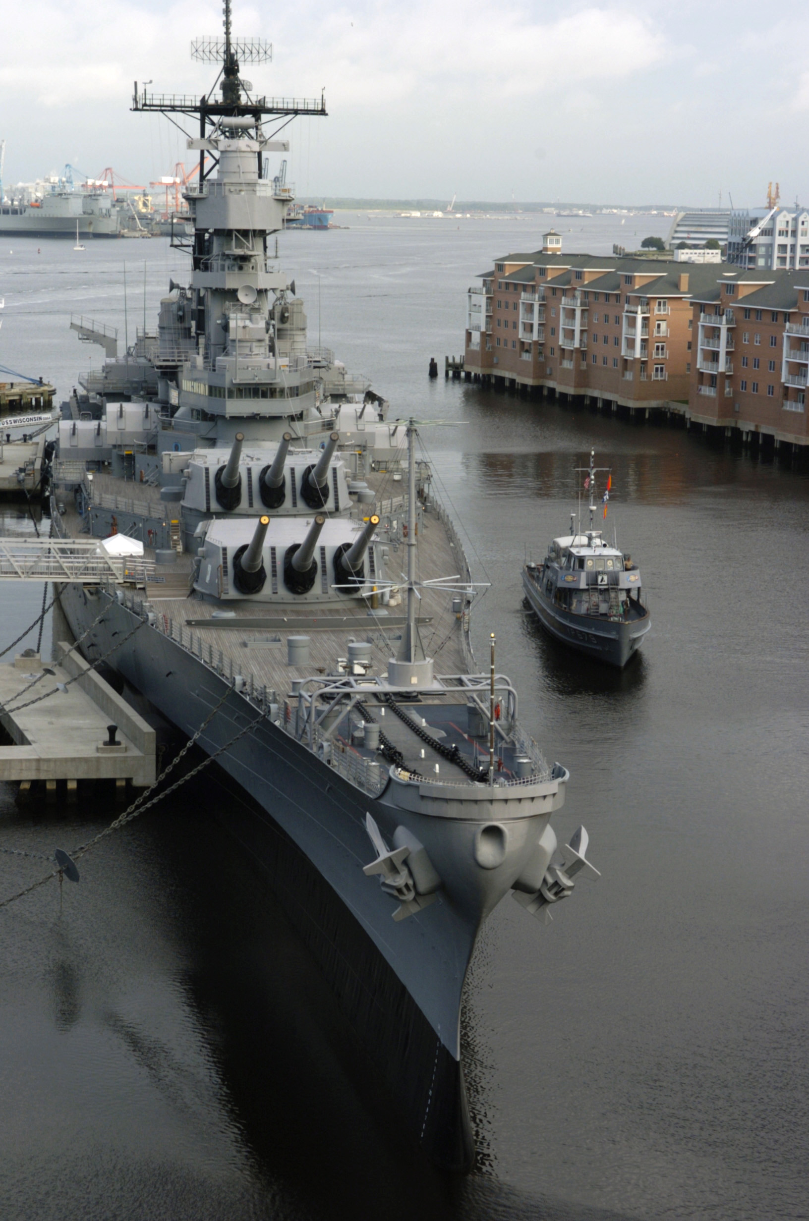 Norfolk, Va. (June 13, 2005) - The Office of Naval Research (ONR) Afloat Lab, YP-679, “Starfish”, pulls alongside the Iowa-class battleship USS Wisconsin (BB 64), located at The National Maritime Center Nauticus on the Elizabeth River waterfront of downtown Norfolk, Va. The Afloat Lab is visiting Norfolk to participate in Harborfest 2005. The event is expected to draw about 1500 visitors during the three-day event. U.S. Navy photo by Mr. John F. Williams (RELEASED)